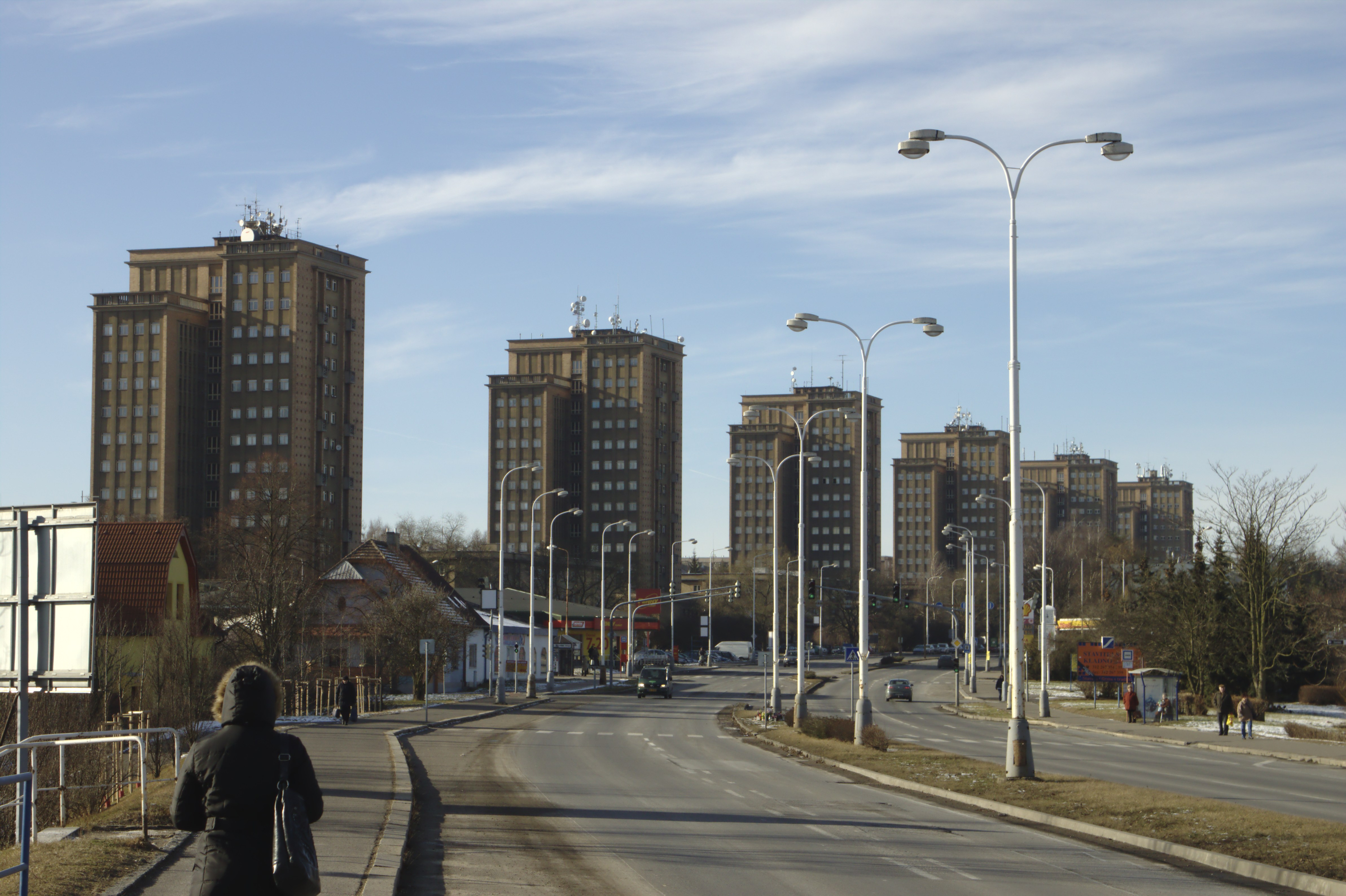 Apartment blocks in Kladno-Rozdělov, Central Bohemian Region, CZ